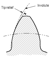 Tip relief